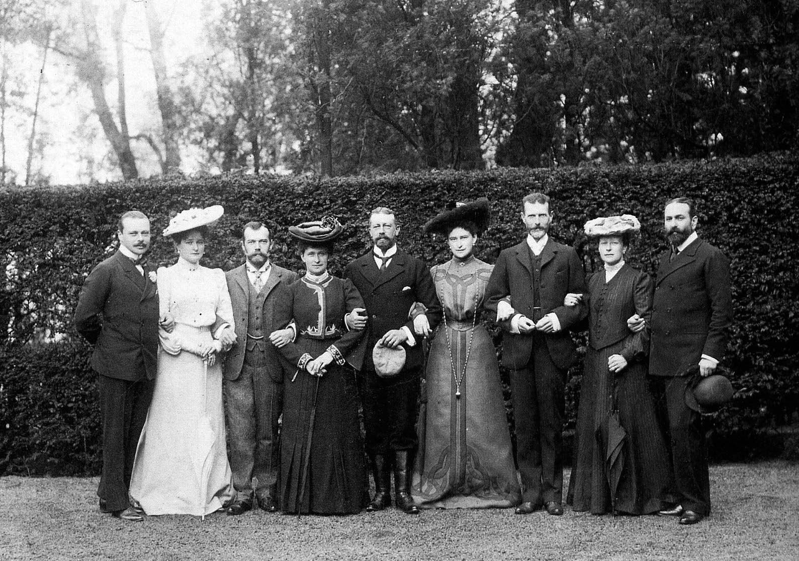 Grand Duke Ernest Louis of Hesse with his sisters and brothers in law (from left) on the occasion of the wedding of Prince Andrew of Greece and Princess Alice of Battenberg in Darmstadt:Tsarina Alexandra Feodorovna and Tsar Nicholas II of Russia; Princess Irene of Hesse and Prince Henry of Prussia; Grand Duchess Elizabeth Feodorovna and Grand Duke Sergei Alexandrovich of Russia; Princess Victoria of Hesse and Prince Louis of Battenberg.